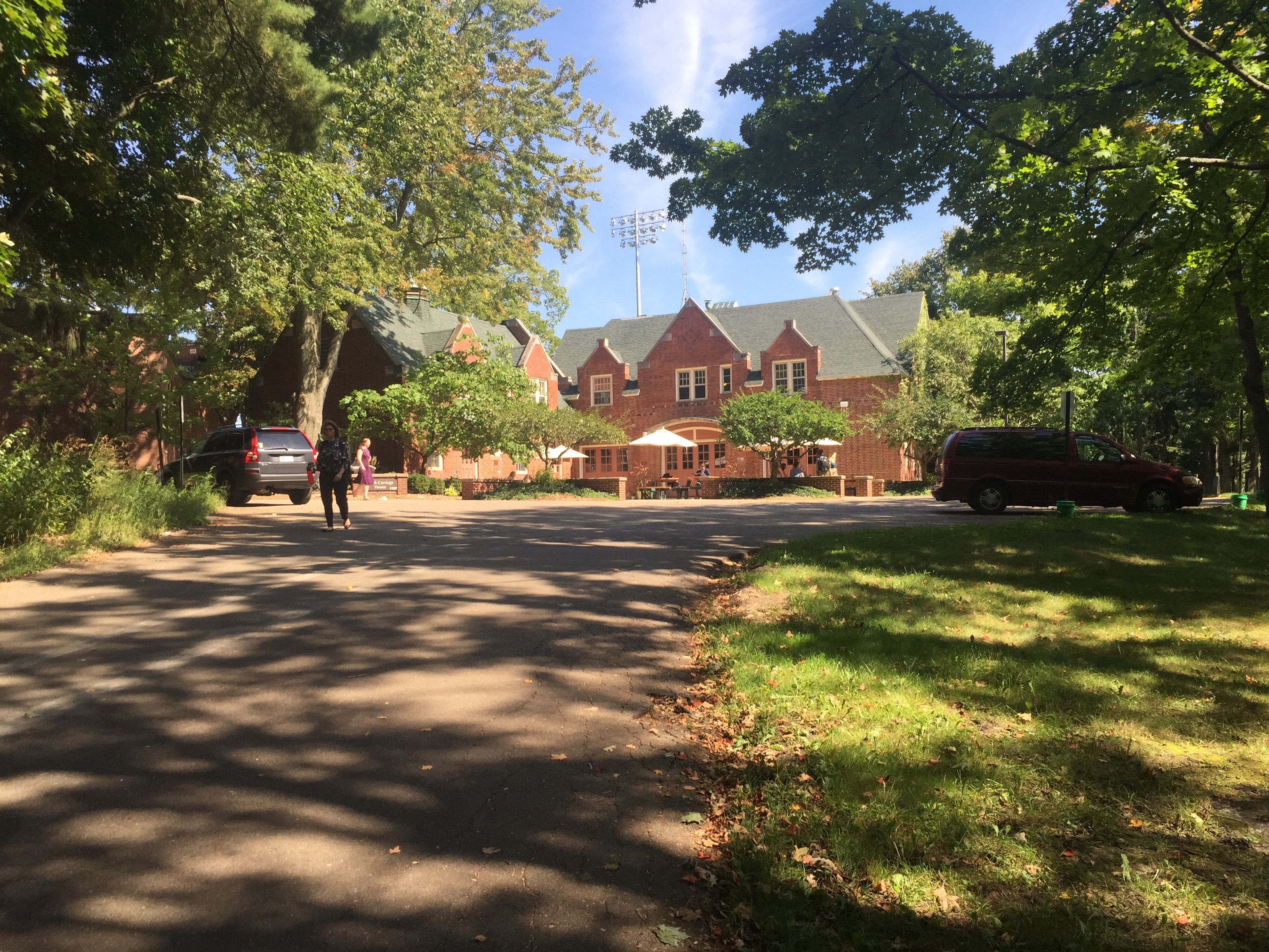 The Moose